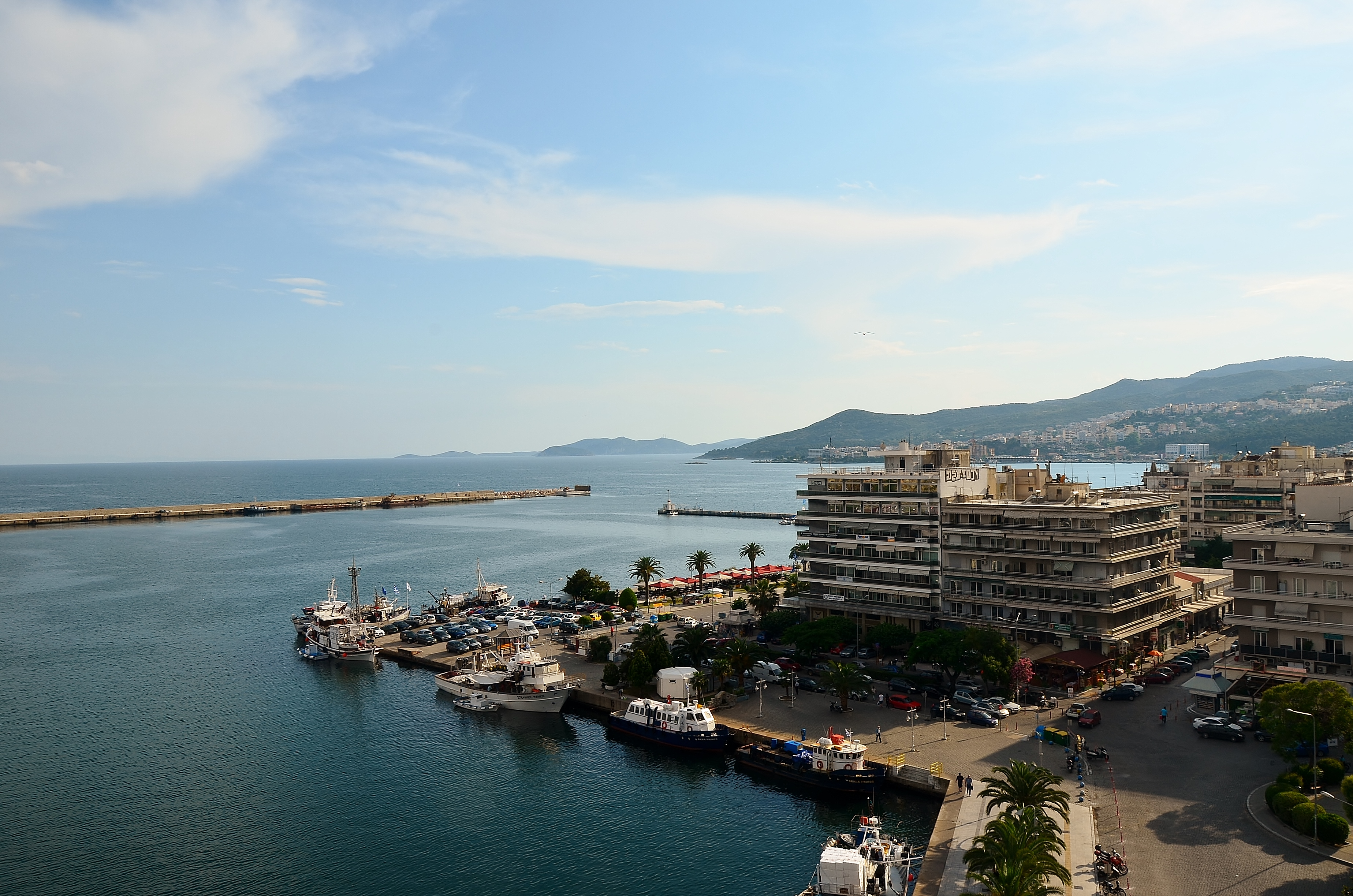 Kavala